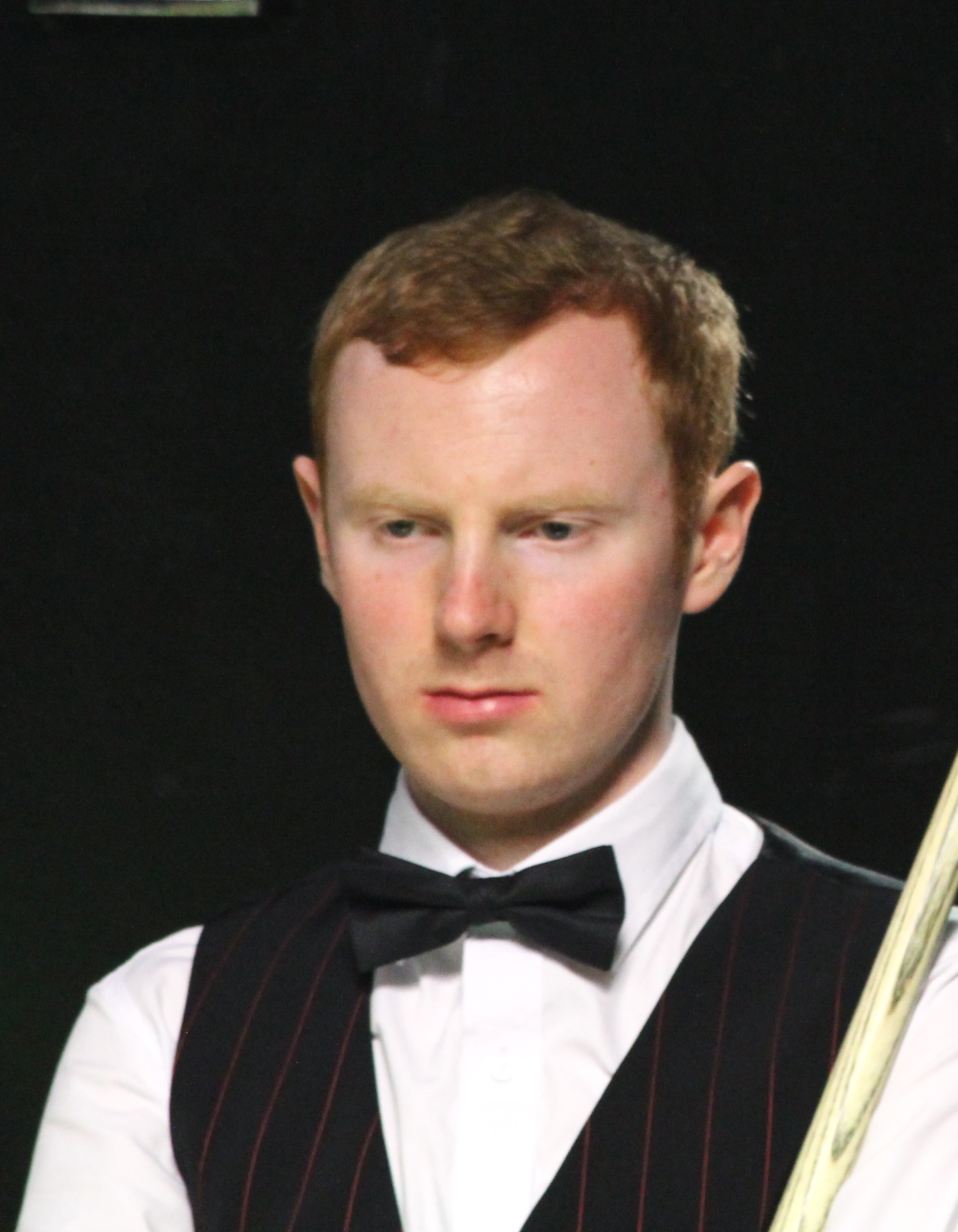 Anthony McGill beim Paul Hunter Classic 2016